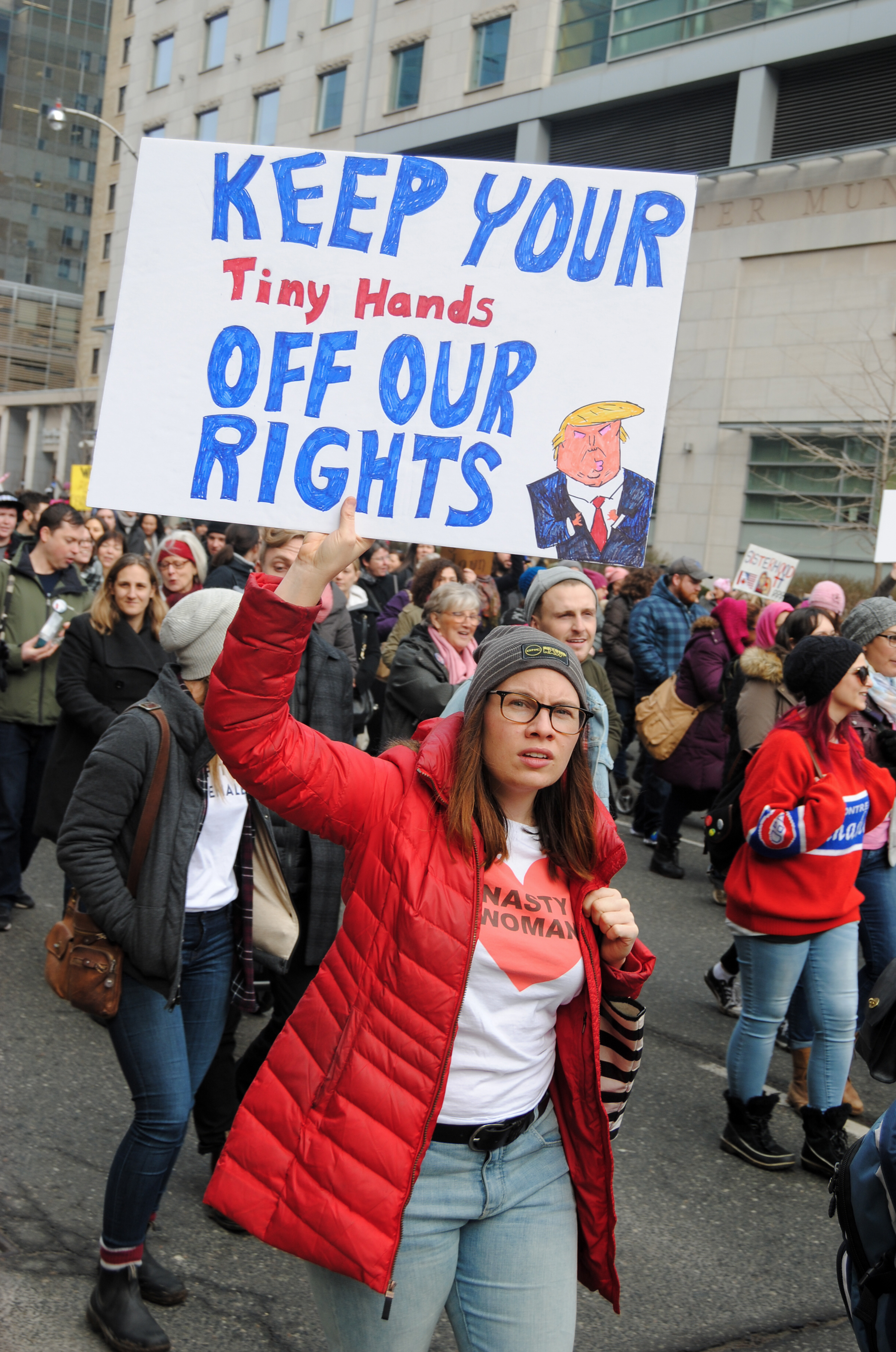 Women's March on Washington: Toronto. Toronto, ON, Canada. Saturday January 21, 2017. Silvia Maresca Photo © (Please contact me first and credit if you want to use elsewhere).